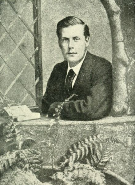 "Looking Out Upon Life" Frederick Charrington at the commencement of his evangelistic career